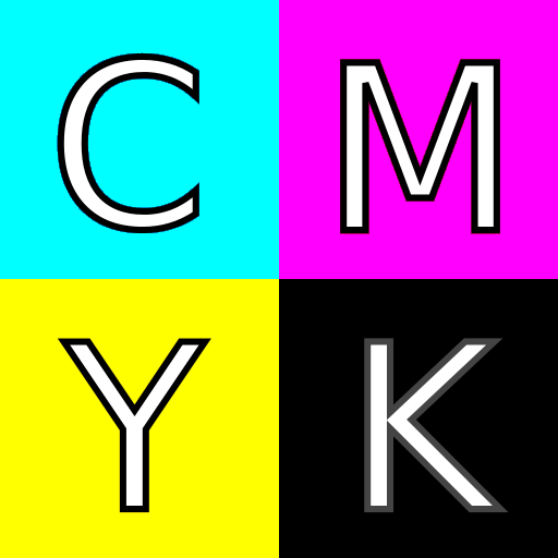 CMYK color swatches (real CMY colors!)